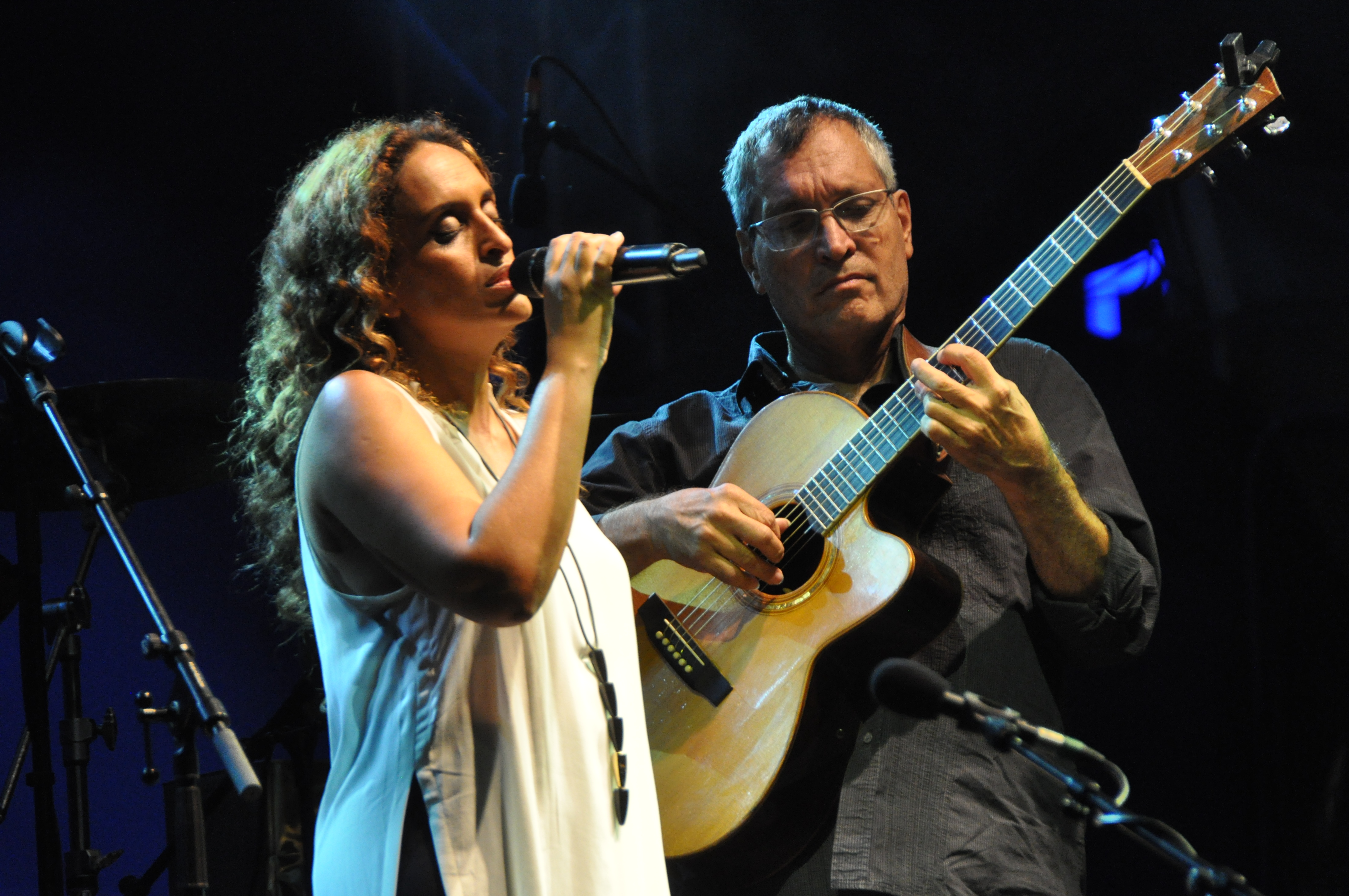 Noa (Achinoam Nini) (Israel), appearance at the 39th music festival "Bardentreffen" 2014 in Nuremberg, Germany, Hauptmarkt stage